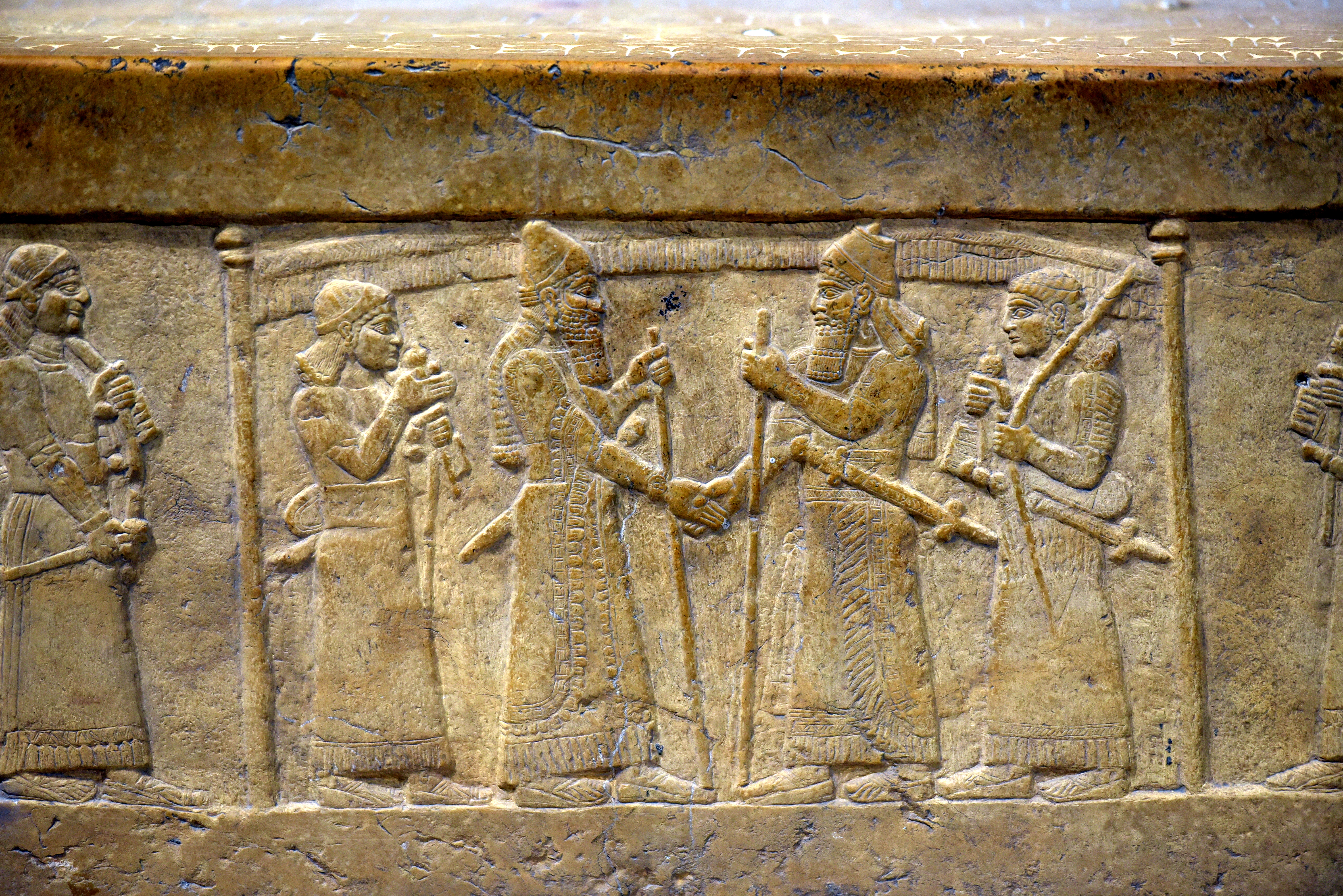 The front panel of this dais depicts Shalmaneser III (r. 858-824 BCE), (on the right) handshaking Marduk-zakir-shumi (r. 855 - 819 BCE) (left), king of Babylon. Both are surrounded by guards and stand below a fringed canopy supported by poles. The scene commemorates Shalmaneser's support of Marduk-zakir-sumi against his rebellious brother, Marduk-bel-usati and the ascent of Marduk-zaki-shumi to the throne. Its place on the dais reflects its importance as one of the great achievements of Shalmaneser III. This dais was found in the eastern end of the throne room (T1) at Fort Shalmaneser in the city of Nimrud (in modern-day Nineveh Governorate, Iraq) in 1962 CE. The front and sides of the dais were carved in relief depicting various tributary scenes. The dais was completed around 846-845 BCE (and that would be the king's 13th year of reign). On display at the Iraq Museum in Baghdad, Iraq.